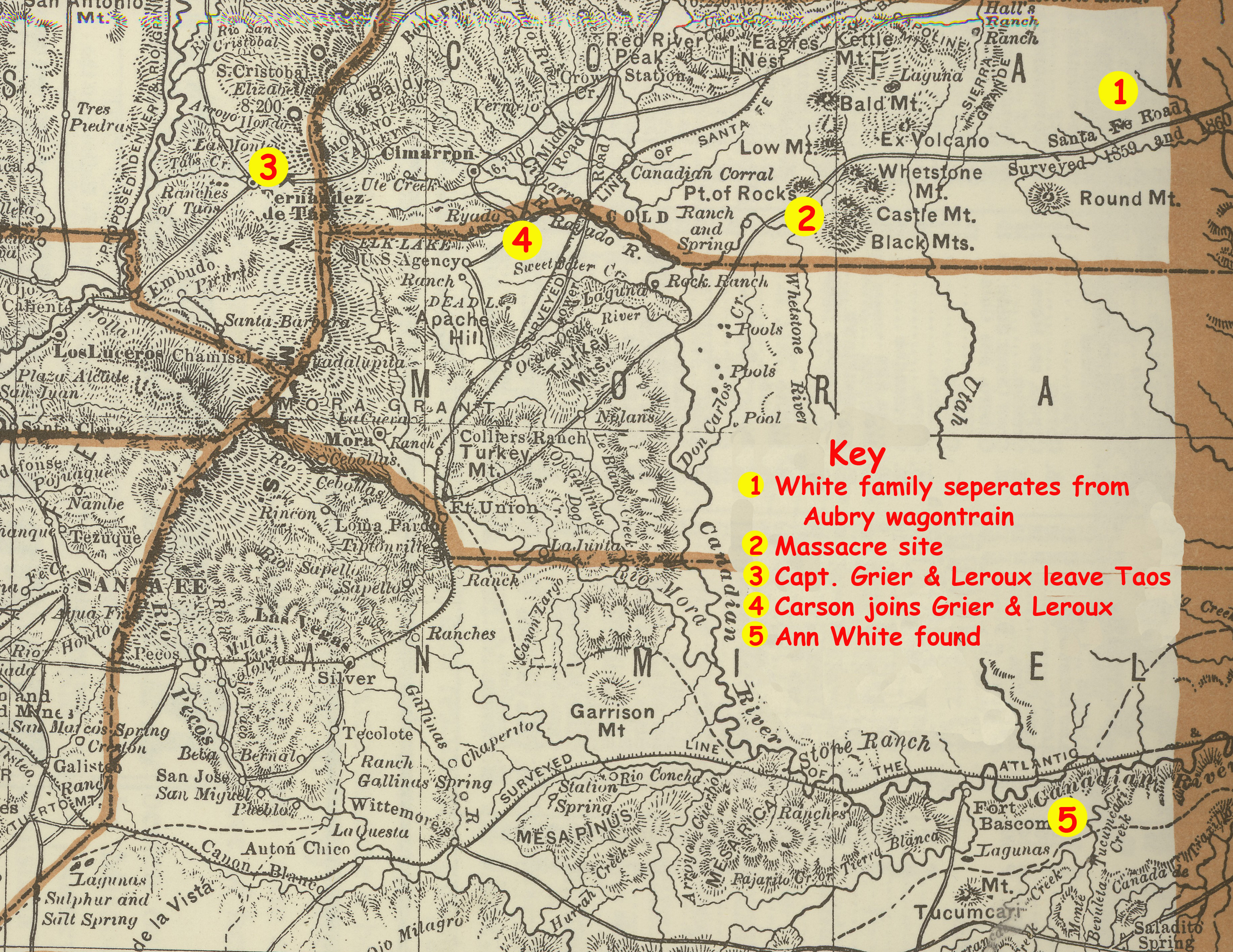 A map I made based on an 1876 map, which is now copyright free